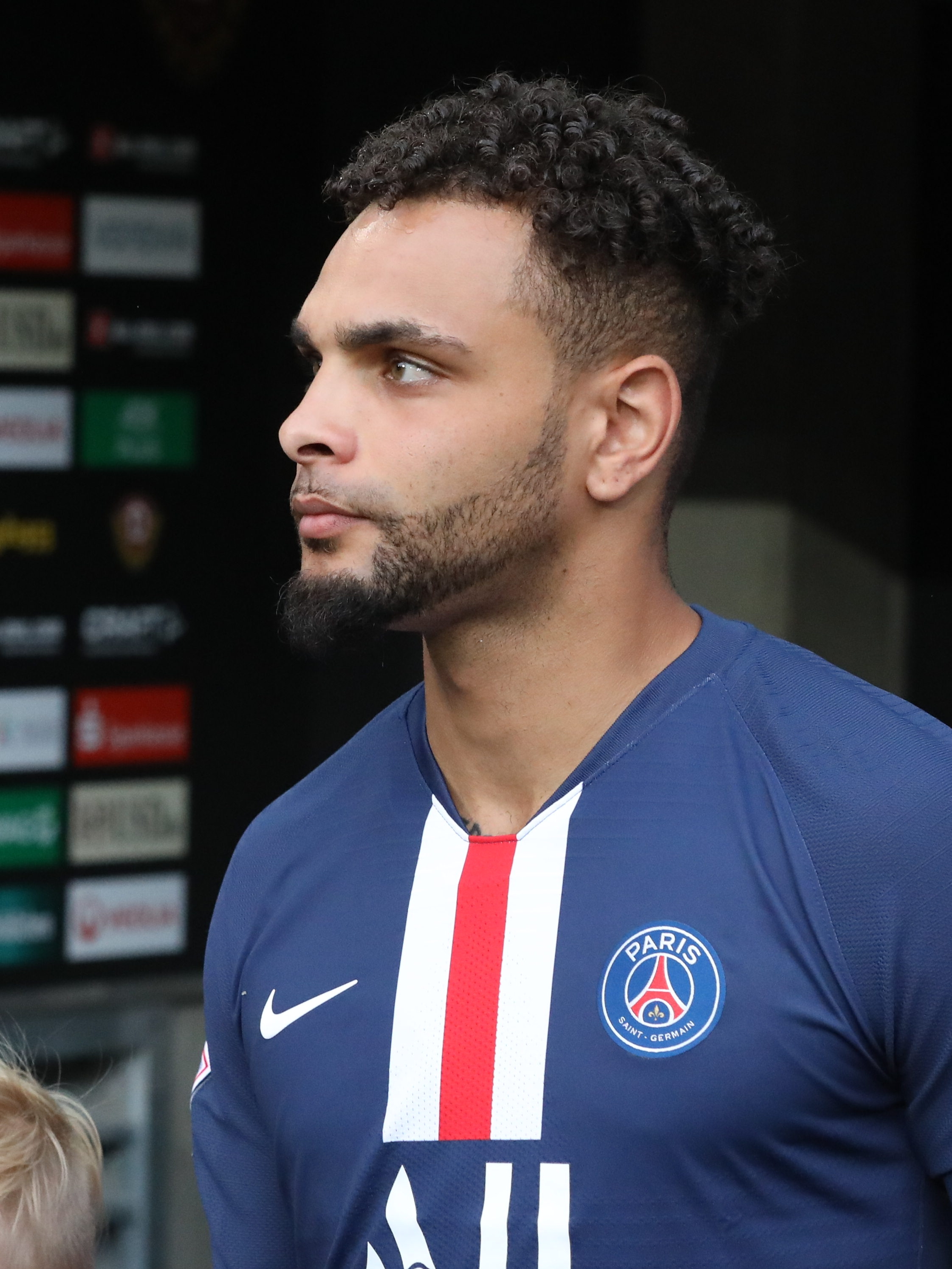 Test game, 17th July 2019: SG Dynamo Dresden vs. Paris Saint-Germain 1:6 (0:3)